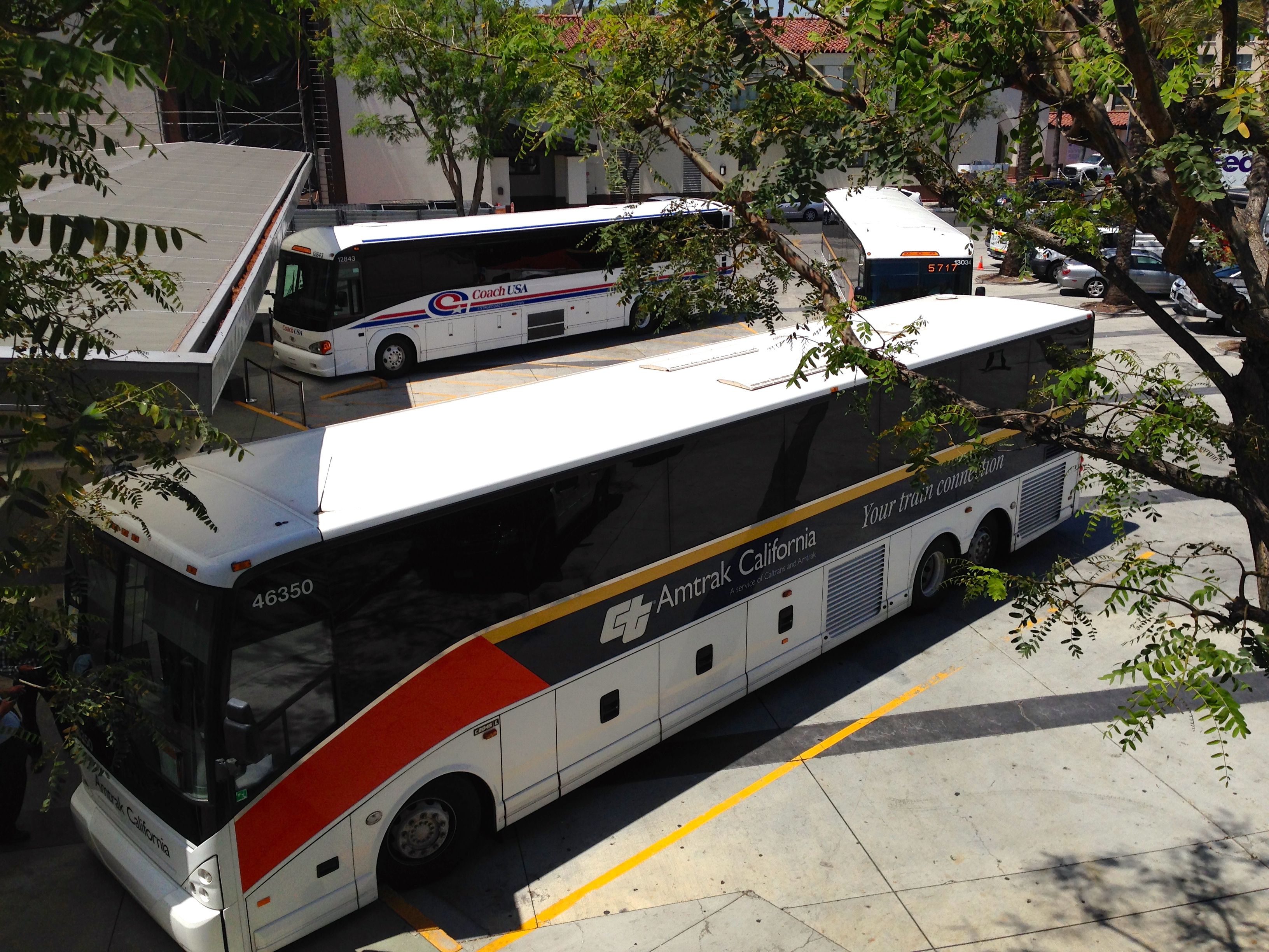 Overhead view of Amtrak Thruway Motorcoach buses at the boarding area of Los Angeles Union Station.